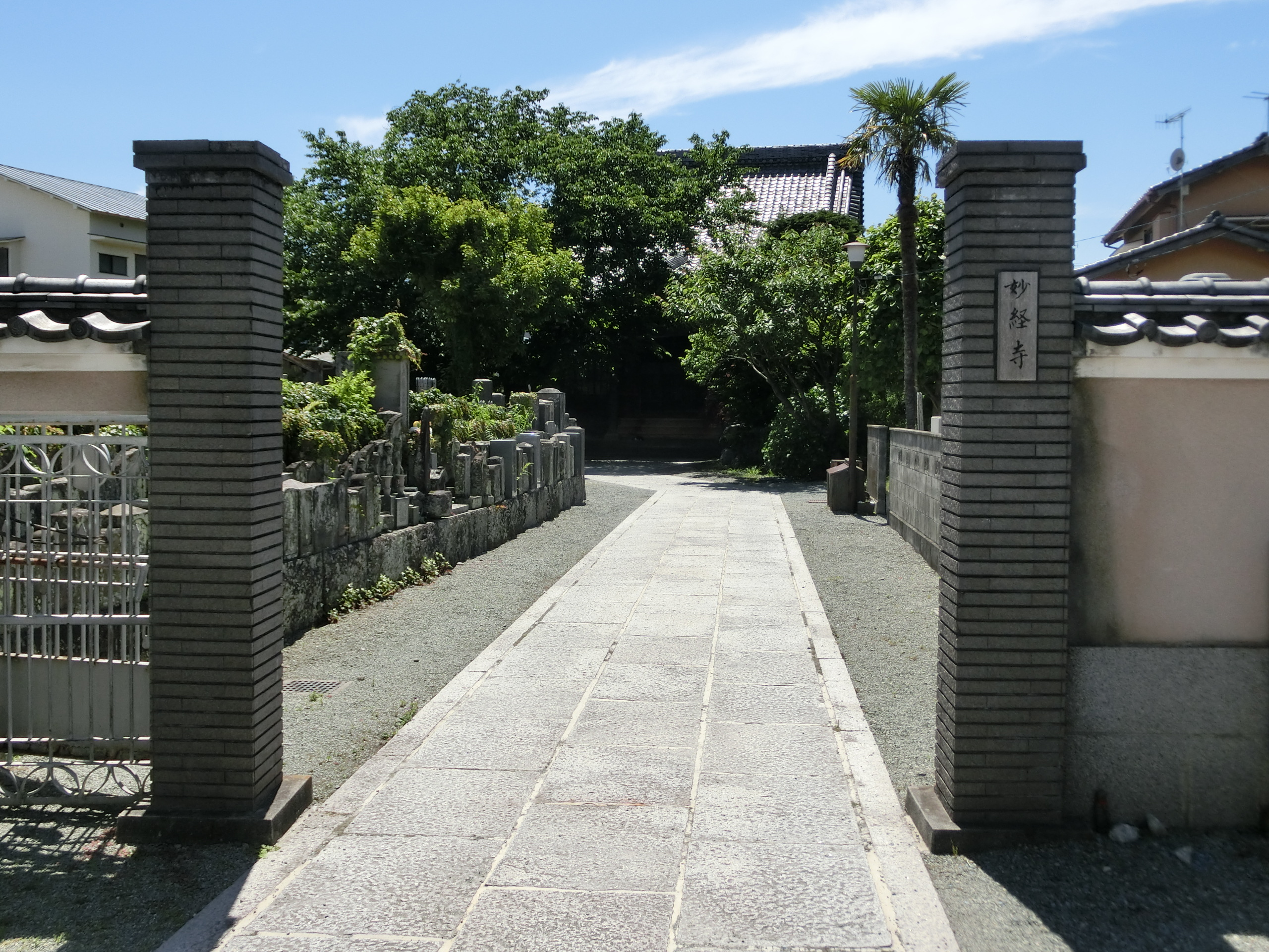 Myokyo-ji (Odawara)